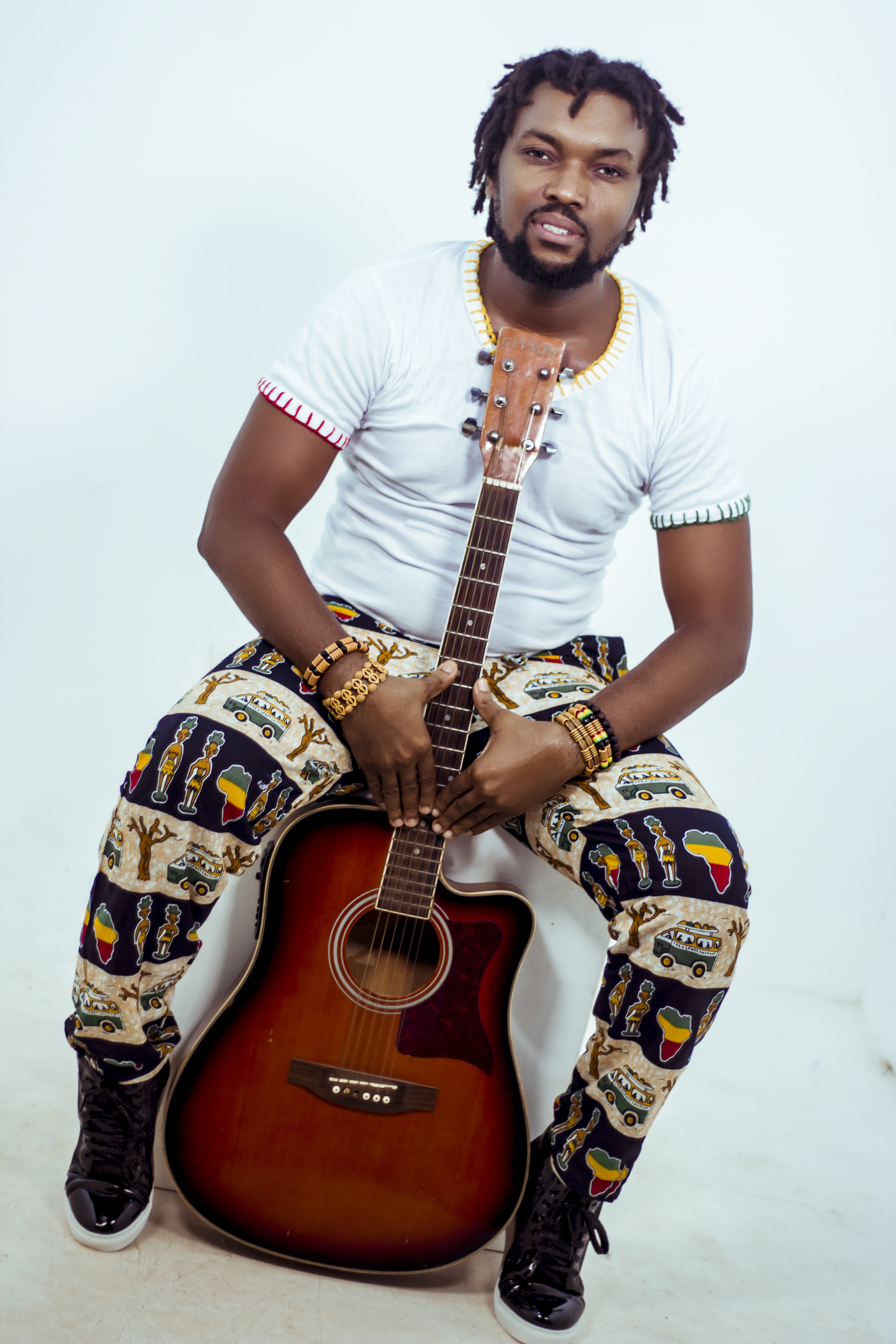 David Oscar Dogbe from Ghana, West Africa, poses with his acoustic guitar